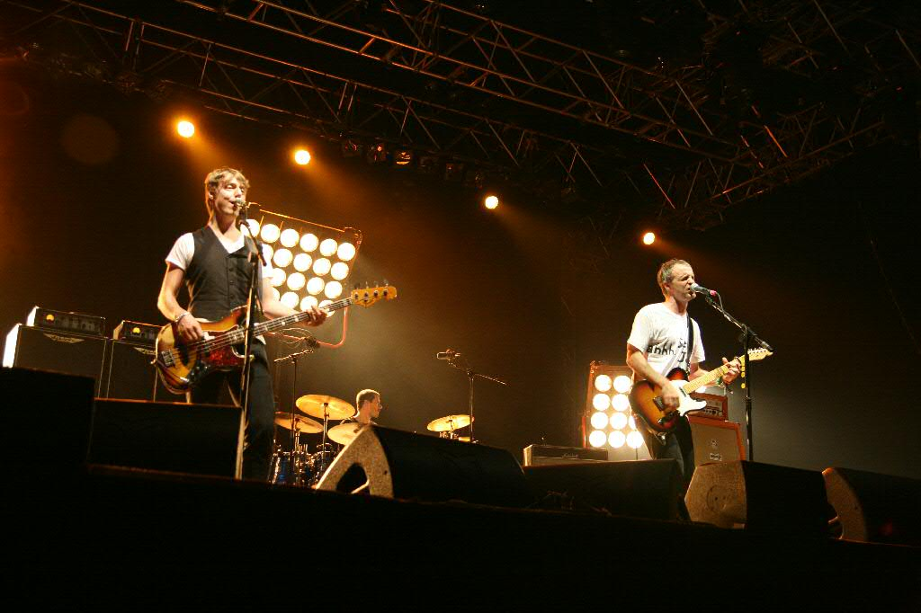 Travis